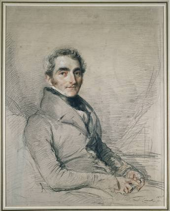 Portrait study of Chambers Hall (1786–1855), English art collector.